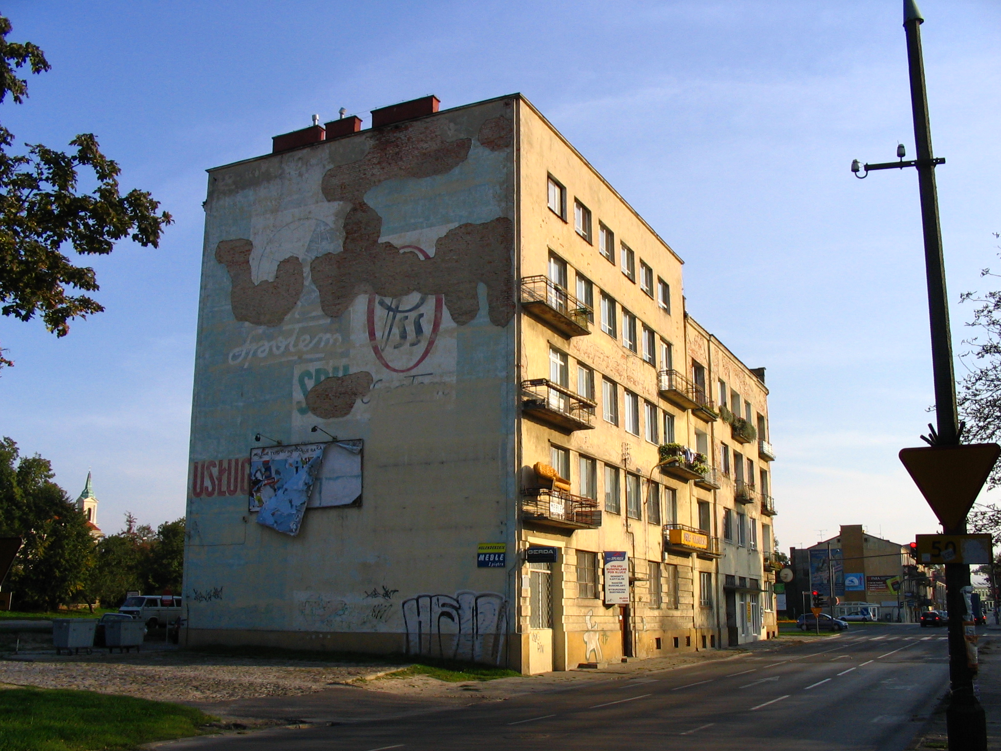 Former jewish hospital on Warszawska street, where Nazis killed hundreds of people